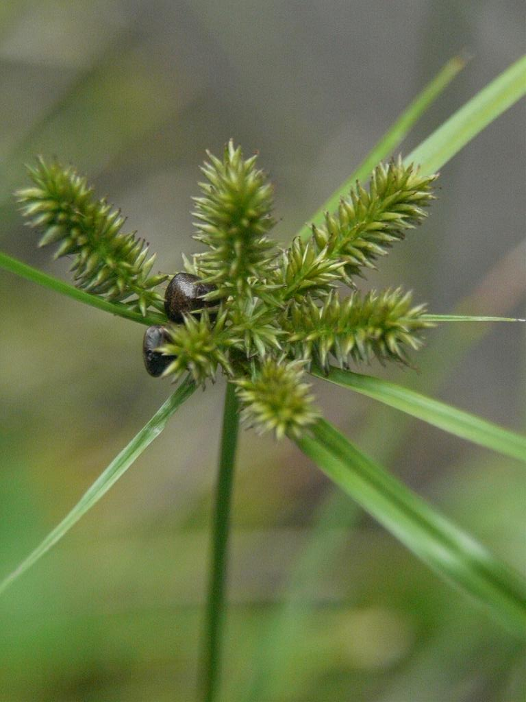 Cyperus cyperoides(Cyperaceae) Japanese name:Inukugu：イヌクグ Date;2008,10.25;Tanabe City, Wakayama prefecture, Japan Author;Keisotyo